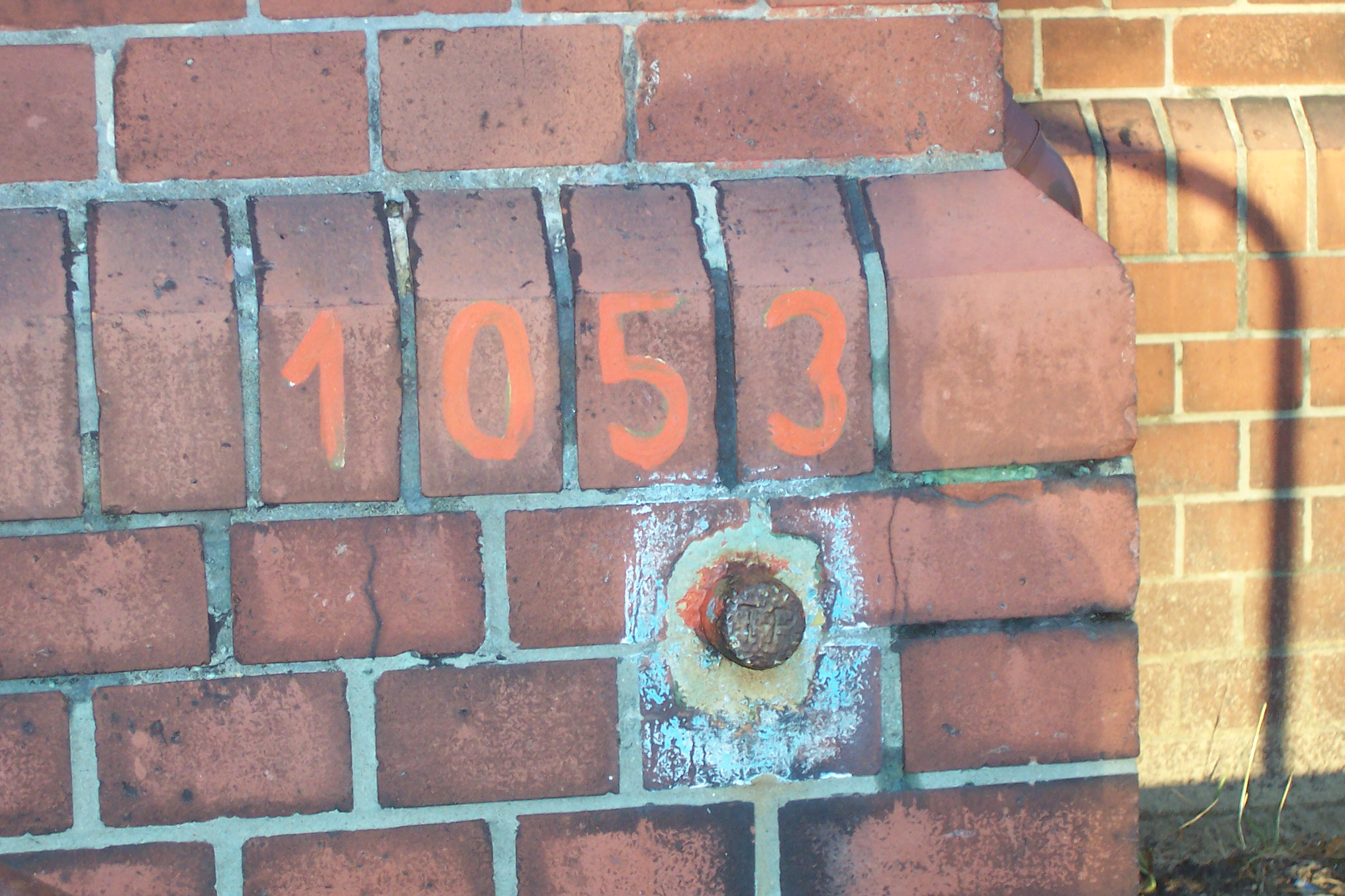 Benchmark on the wall